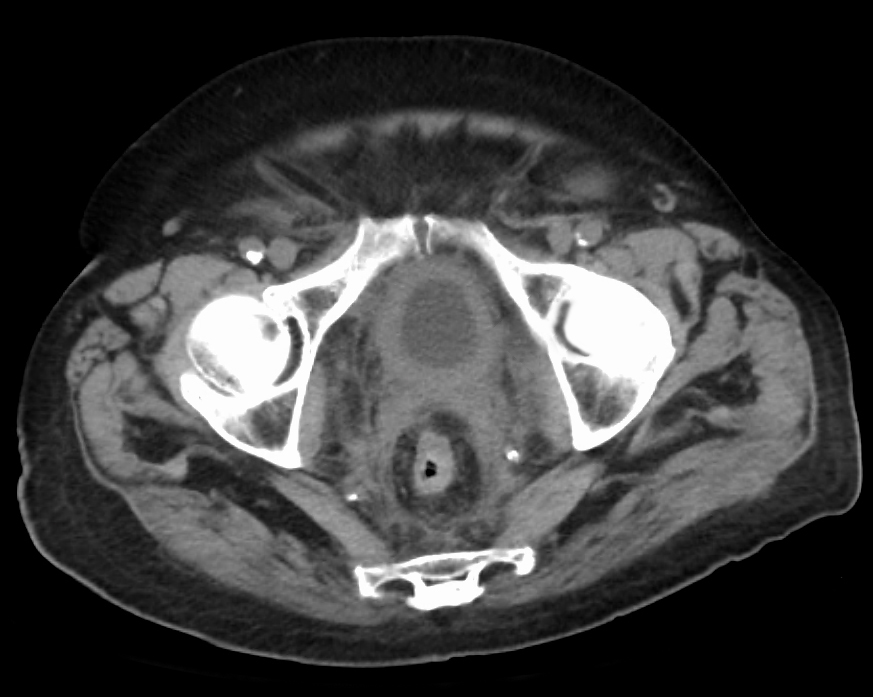 Bladder wall thickening due to cancer. This is an edited version of the source image made for use in the "Anatomist" iOS and Android app and shared here under the terms of the source image's Share Alike Creative Commons license.